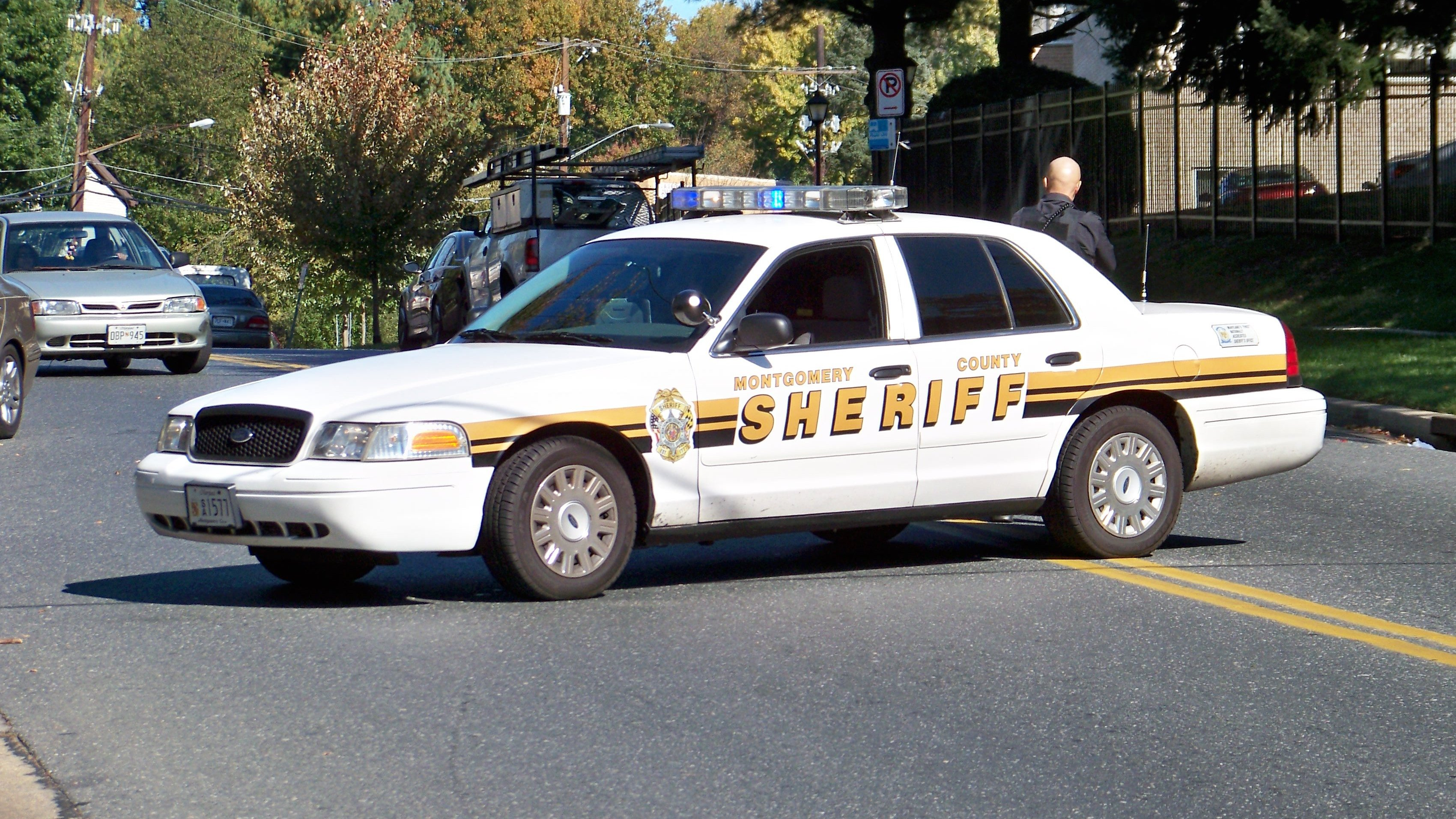 A Montgomery County Sheriff's Office vehicle blocks off a street where a car fire had occurred in Silver Spring, Maryland.